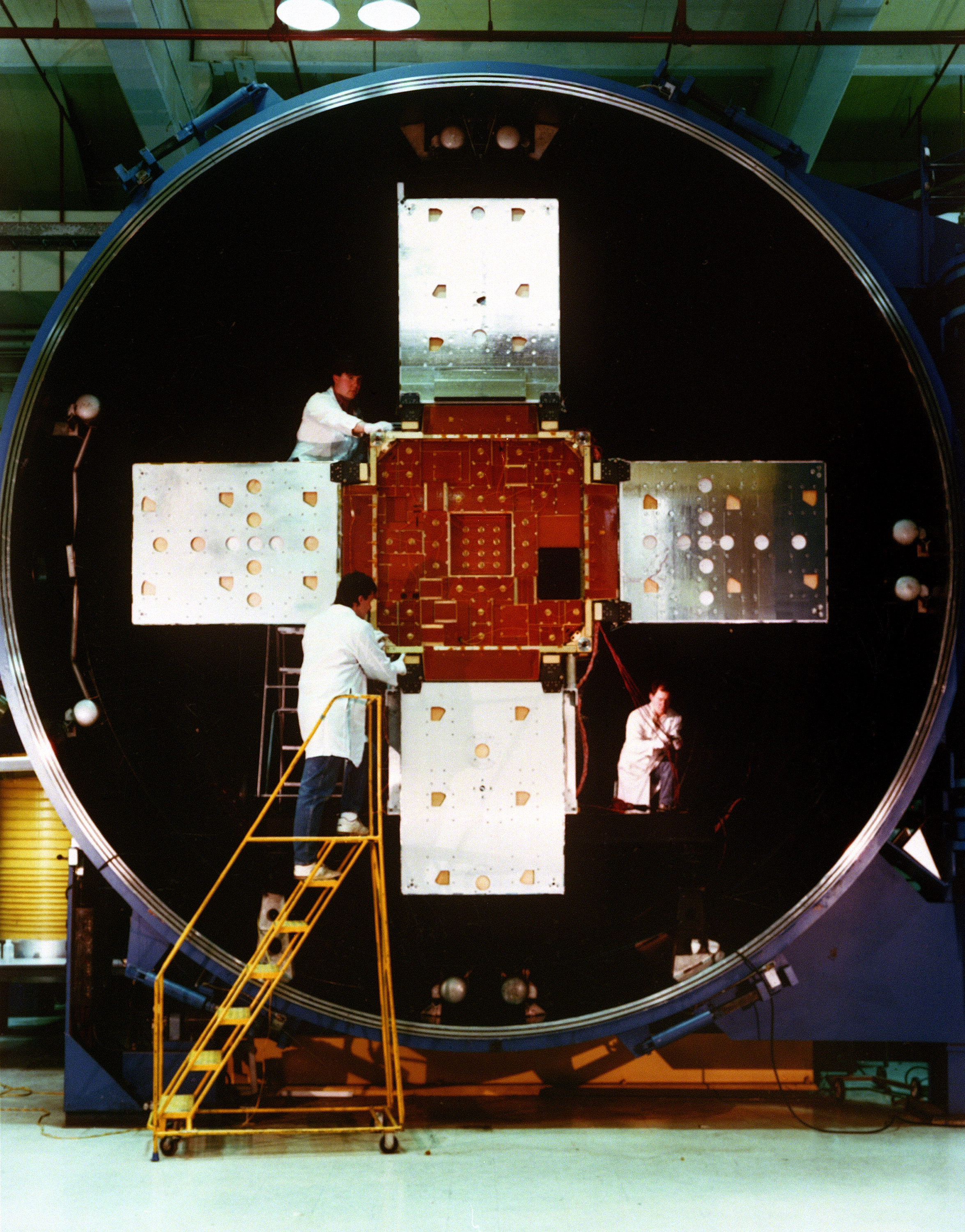 Technicians at the Naval Research Laboratory (NRL), work on the Low-powered Atmosphere Compensation Experiment satellite, which was developed by the NRL as part of its Strategic Defense Initiative (SDI) research.Location: WASHINGTON, DISTRICT OF COLUMBIA (DC) UNITED STATES OF AMERICA (USA)